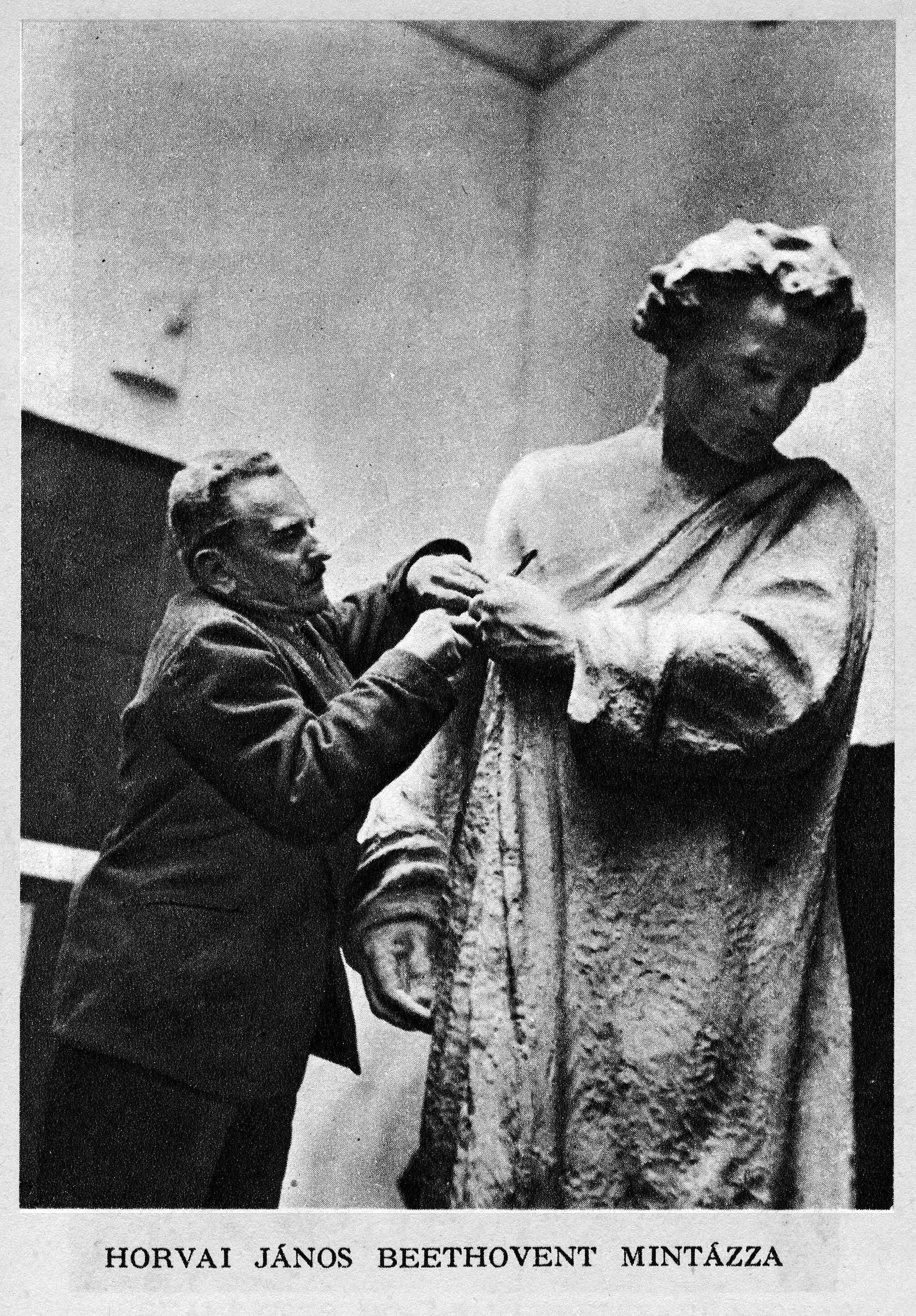 János Horvay (1874-1944) Hungarian sculptor - during sculptures (1938)